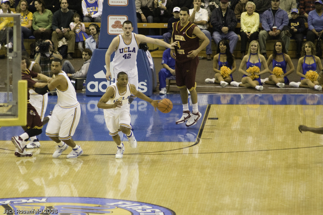 Russell Westbrook of UCLA on a fast break in game vs Arizona State at Pauley Pavilion, Los Angeles, Jan. 31, 2008